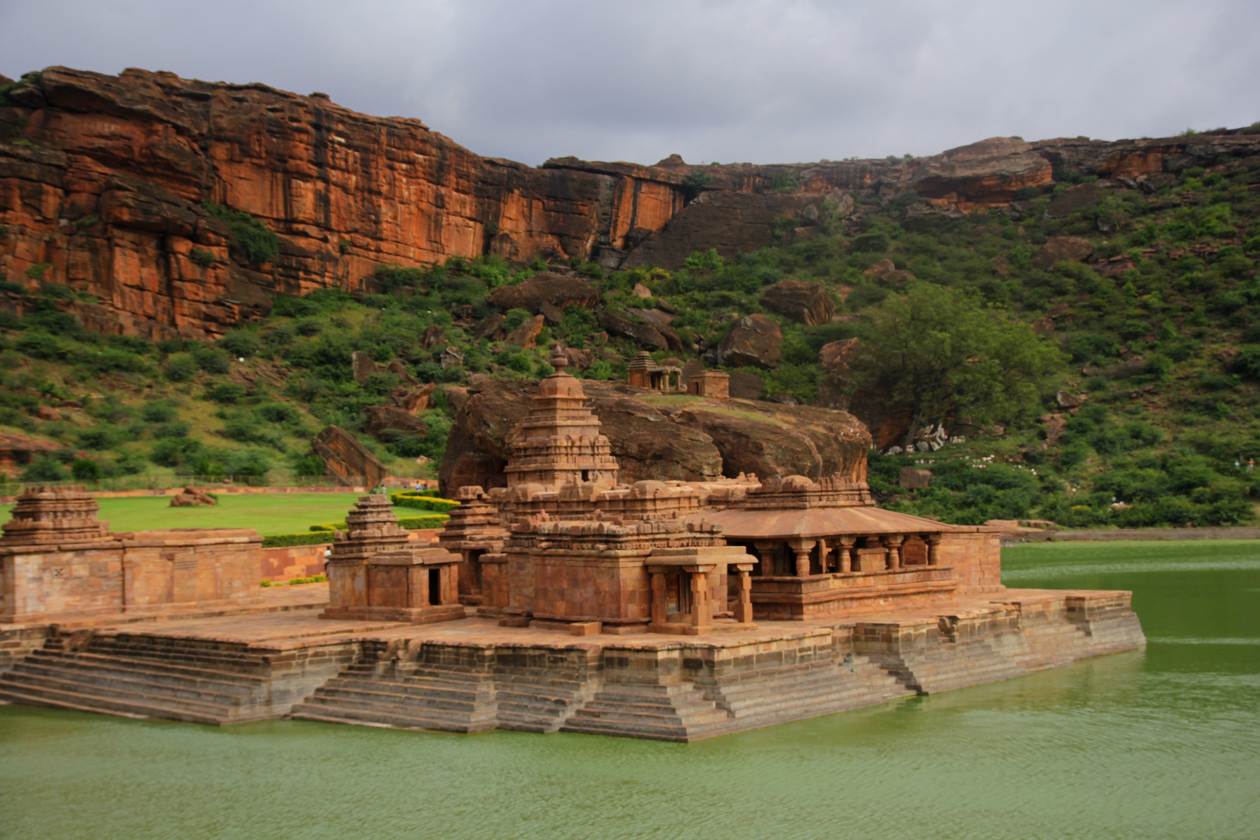 A panaromic view of the Bhutanatha Group of temples, Badami